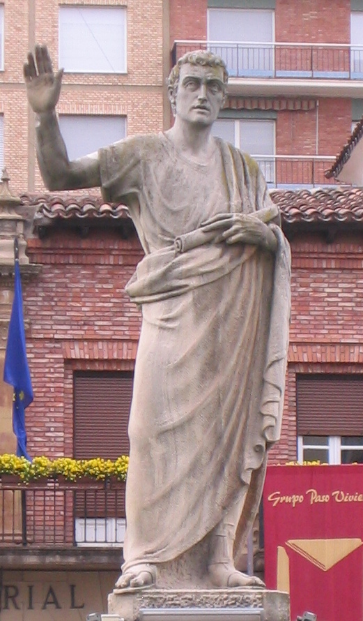 Quintilian's monument in Calahorra, La Rioja, Spain.